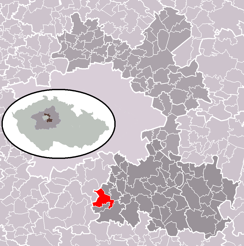 Location of Sulice municipality within Prague-East District and administrative area of Říčany as a Municipality with Extended Competence.